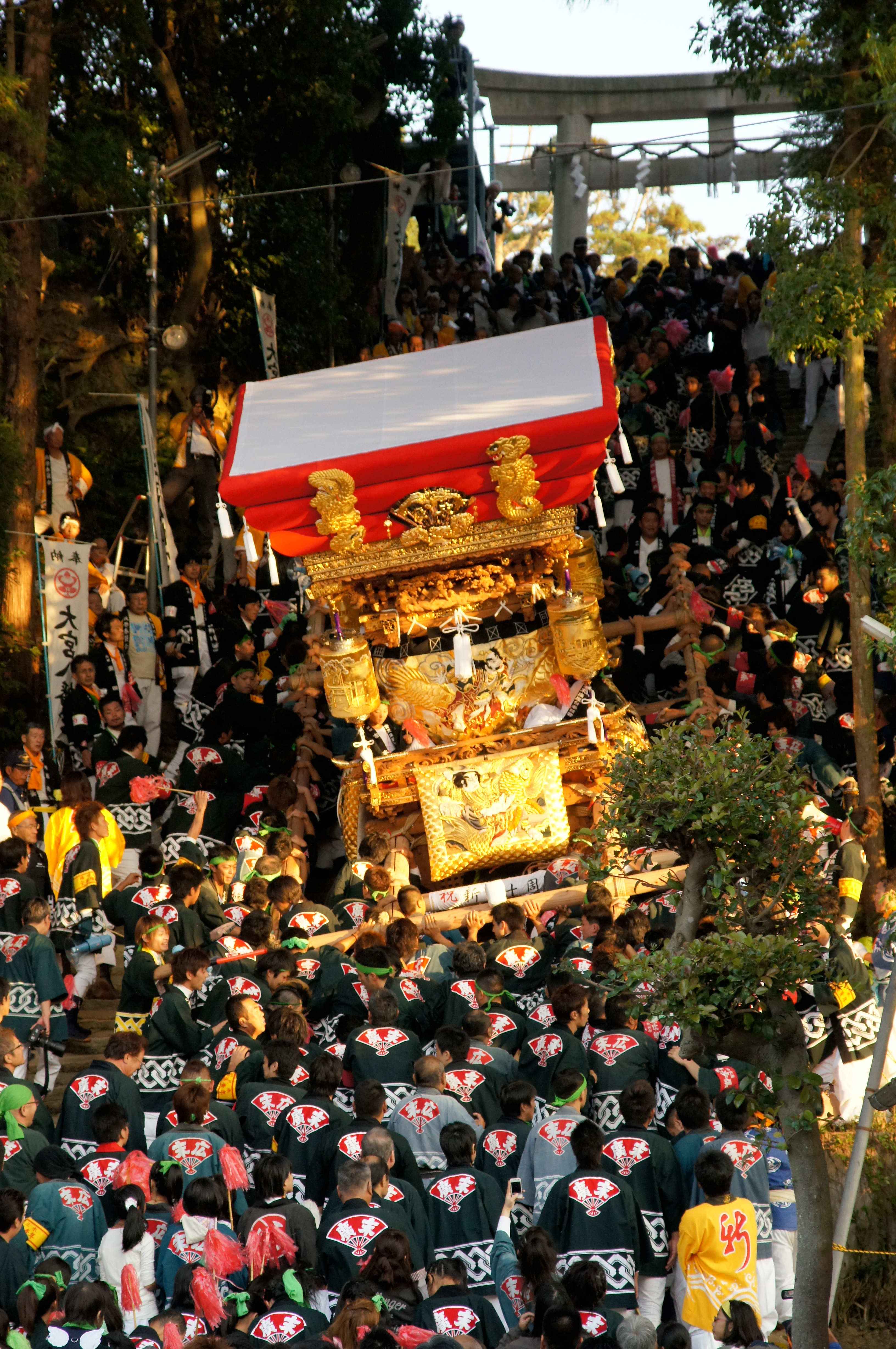 Miki Autumn Harvest Festival in Omiya-Hachimangu, Miki, Hyogo prefecture, Japan.